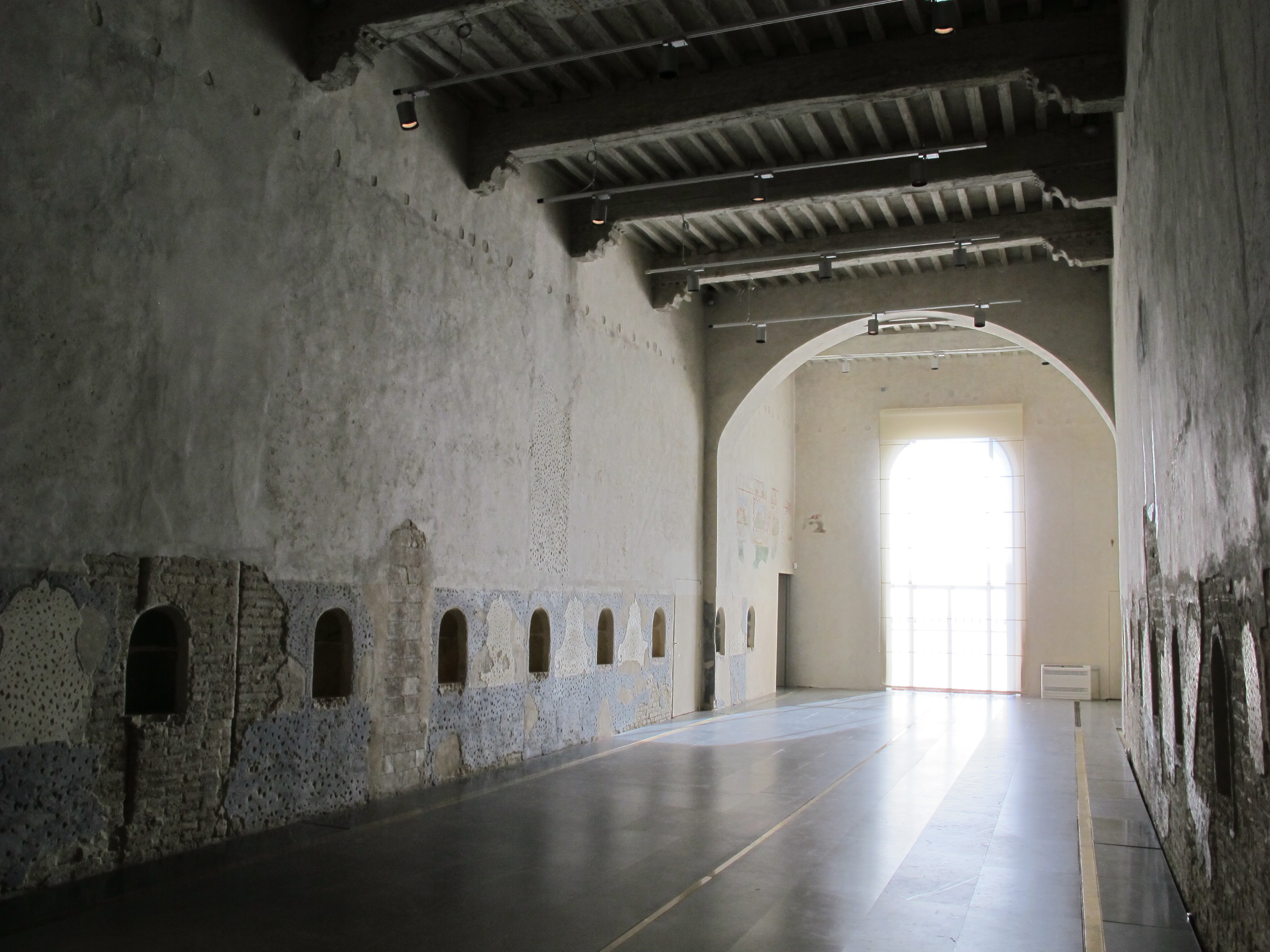 Pilgrims Lane in Santa Maria della Scala Hospital (Siena)